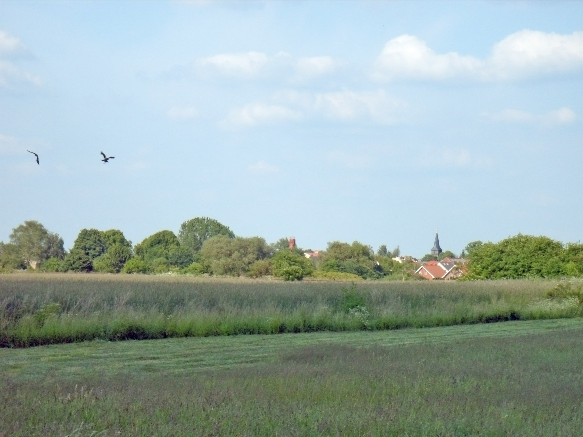 Berlin-Blankenfelde. View from southeast.